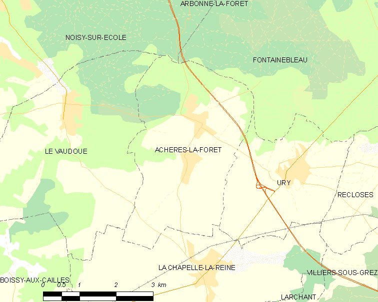 Map of French municipality Achères-la-Forêt